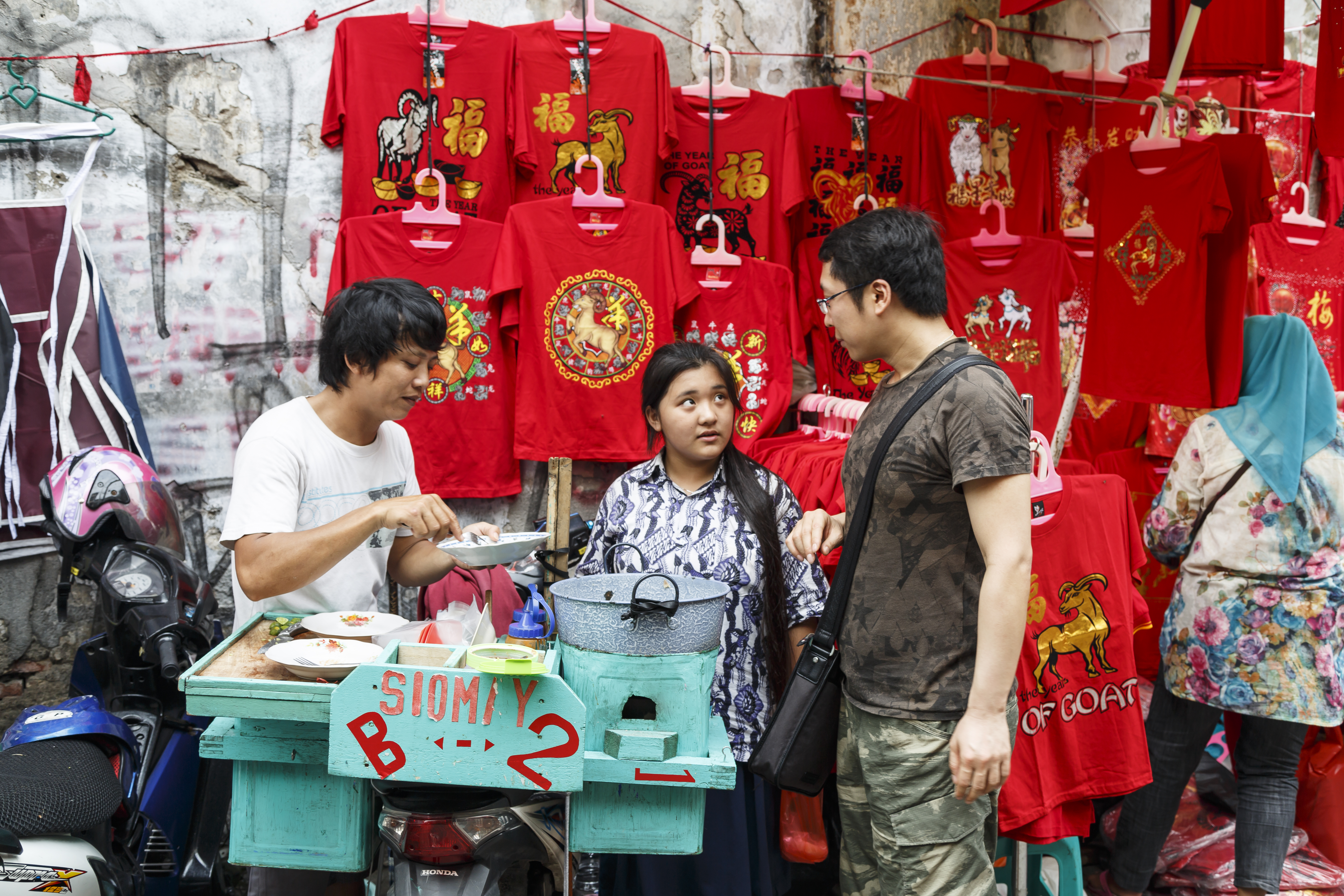 Jakarta, Indonesia: Food hawkers in Chinatown Jakarta, Glodok quarter.